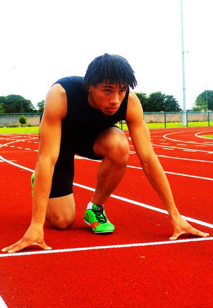 Jordan Ramos is a British sprinter from the Liverpool Harriers & Athletic Club Liverpool his events are 60 metres, 100 metres and 200 metres